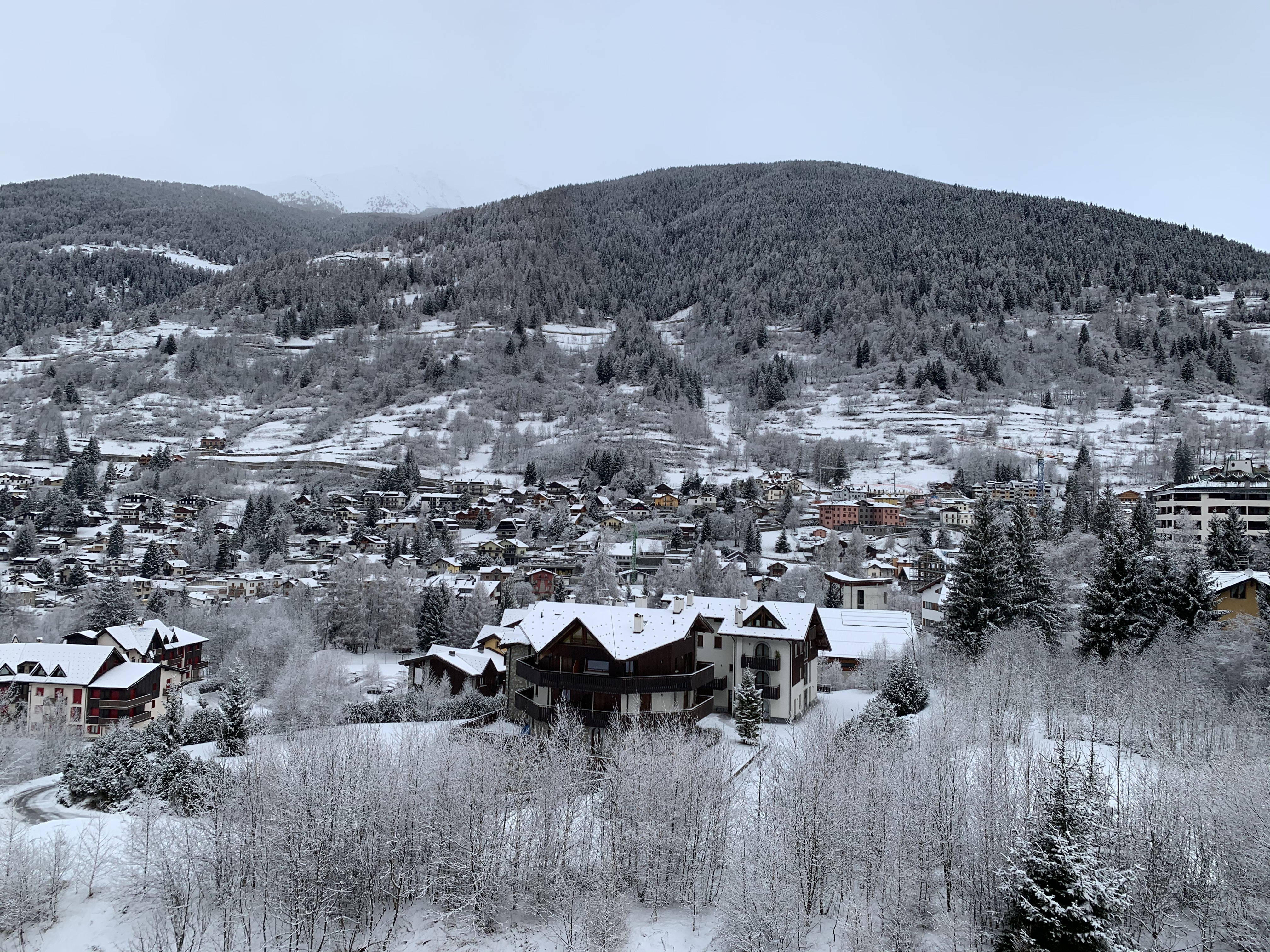 Ponte di Legno, Brescia, Lombardy. General view in winter.